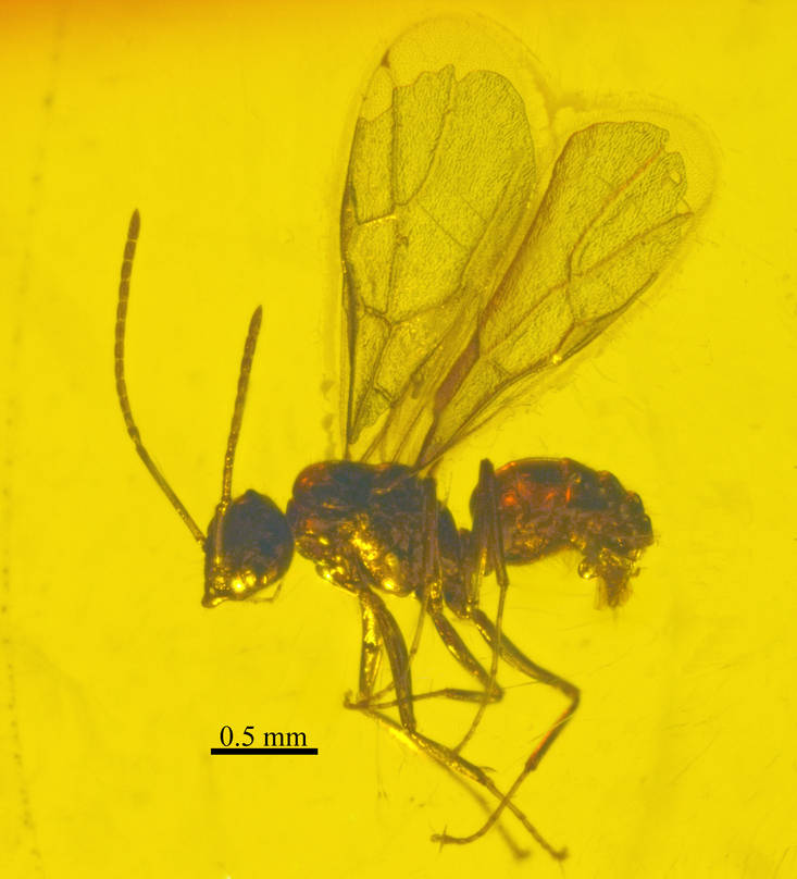 Close-up profile view of a Nylanderia pygmaea" syntype male. Specimen NHMW-WBE5-3; Naturhistorisches Museum, Vienna, Austria Baltic Amber, Middle Eocene; Samland Peninsula?, Baltic Region, Europe.